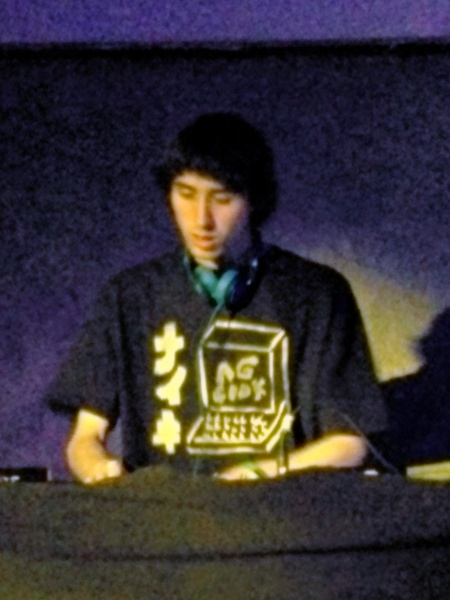 A. G. Cook DJing at 1015 Folsom in San Francisco, California, United States